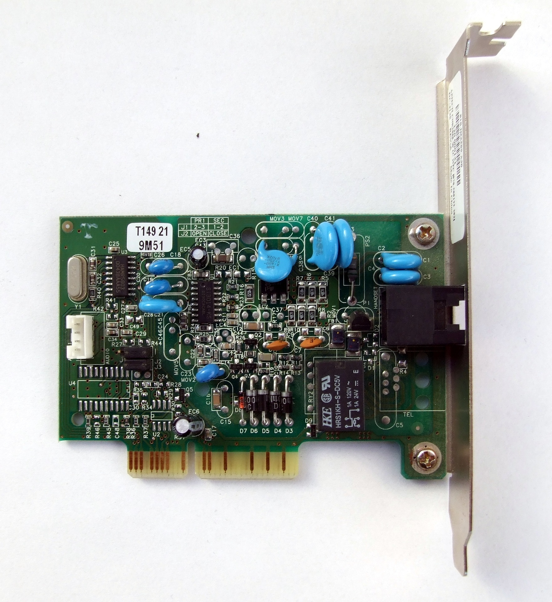 Aztech modem card for cnr slot. Some of the text on the chip is